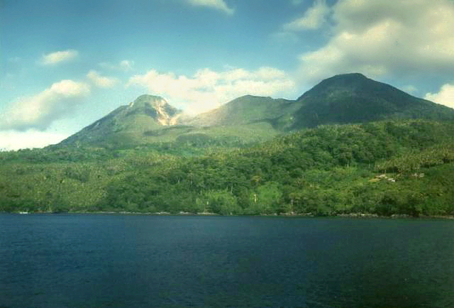 Wurlali volcano (also referred to as Damar), seen here from Cape Wilhelmus on the north, is part of Indoneisia's Banda Island chain. The 868-m-high stratovolcano was formed in the northern part of a 5-km-wide caldera, and has twin summit craters. During historical time only a single explosive eruption occurred, in 1892 from the summit crater.